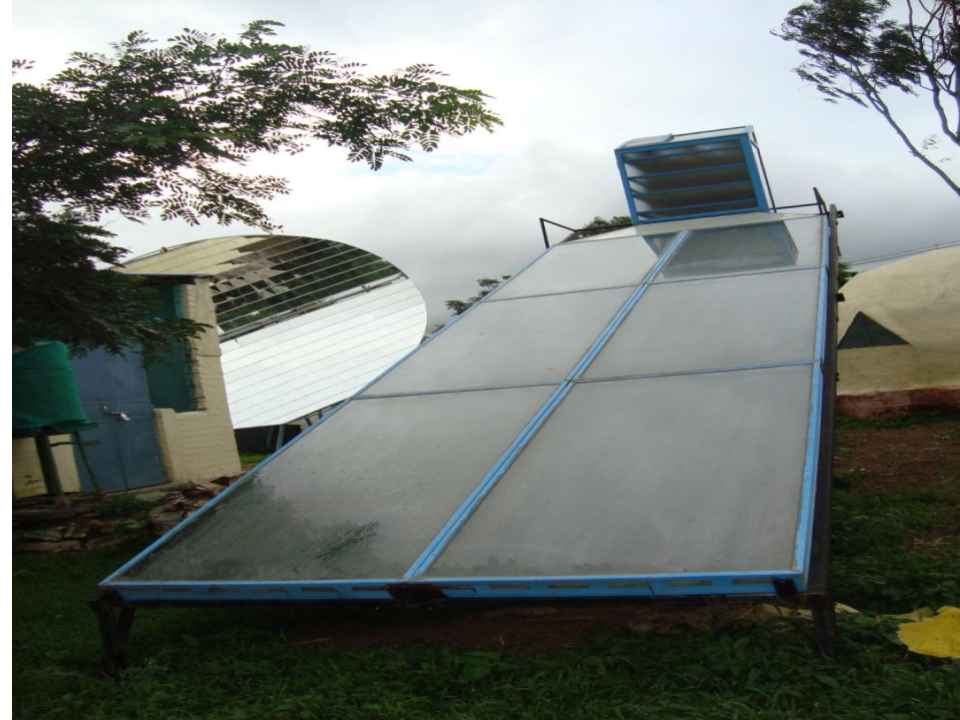 Solar Dryer